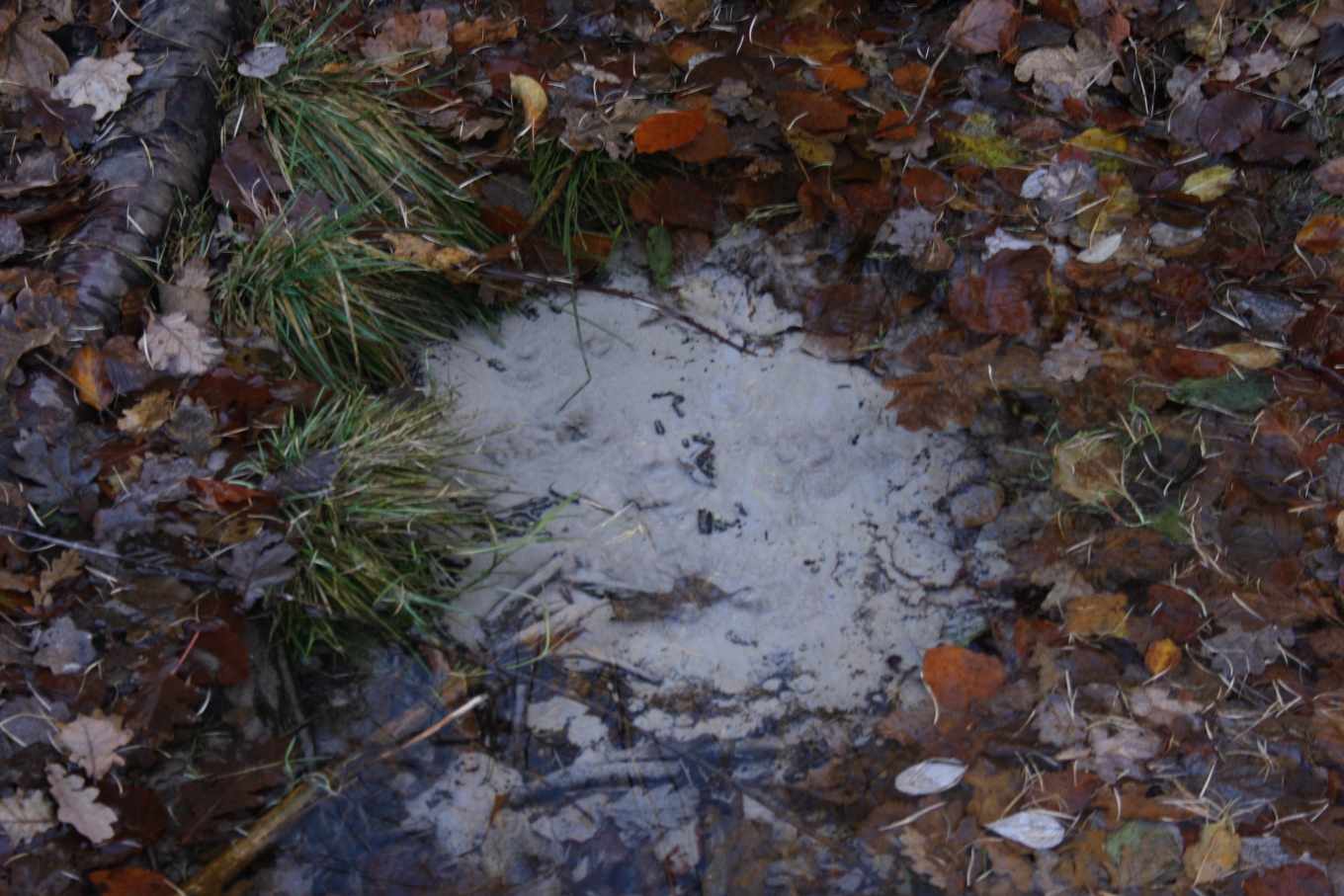 Tinnet Krat: One of the sources of the Guden å river. Note the "boiling" sands at the bottom.